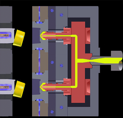 Cross-section of a plastic injection mold with the Hot Runner System highlighted in red. The image shows the "part ejection" cycle. This image was created by Orycon Control Technology Inc.